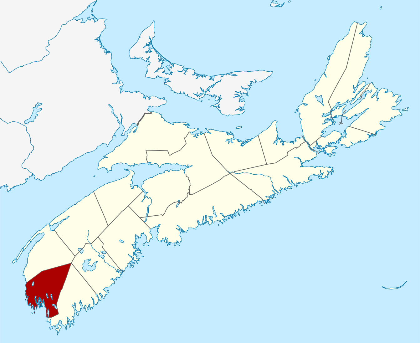 Map of Nova Scotia, containing Yarmouty County